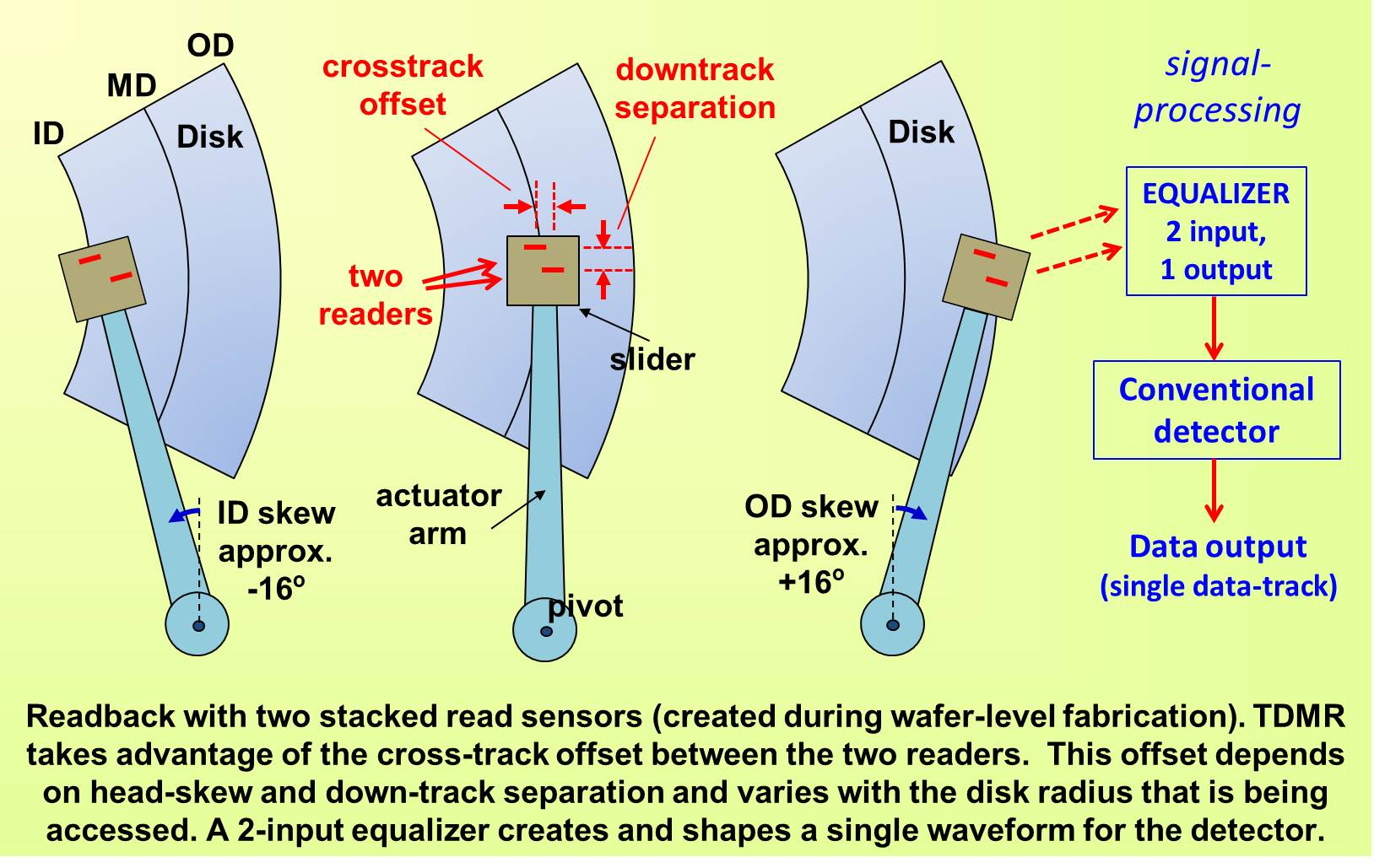 Two-Dimensional Magnetic Recording (TDMR) is a technology for achieving higher areal densities in magnetic recording (esp. HDDs). First implemented by Seagate in 2017.